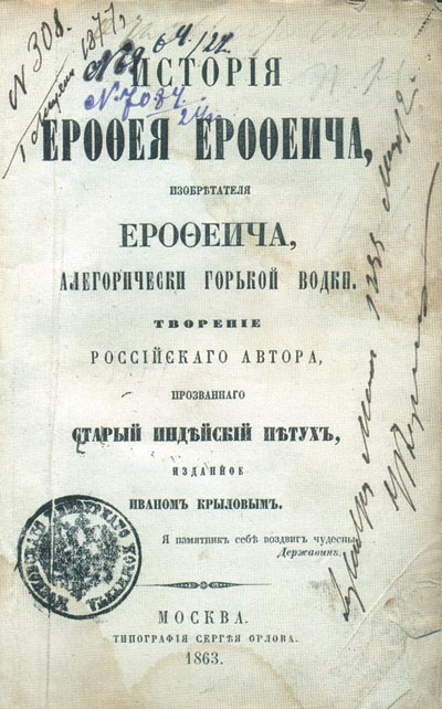 Title page